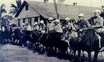 Photo of the Guam Cavalry, a group of bull-riding military units put together by Governor Wettengel